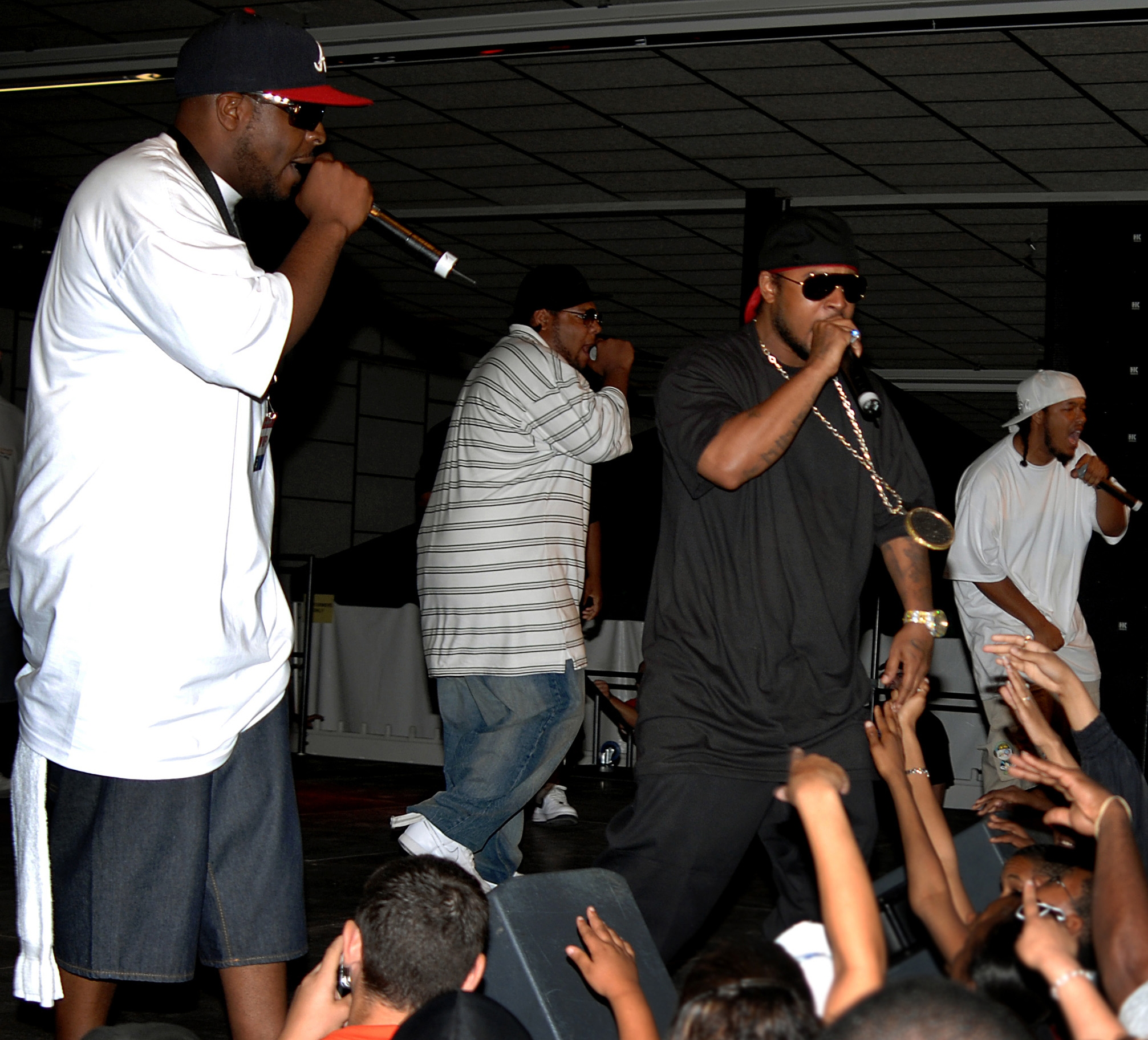 The rap group Youngbloodz perform at Rhine Ordnance Barracks, Germany, June 9, 2007. The group have provided free entertainment to military personnel stationed world-wide. (Released) (Released to Public)